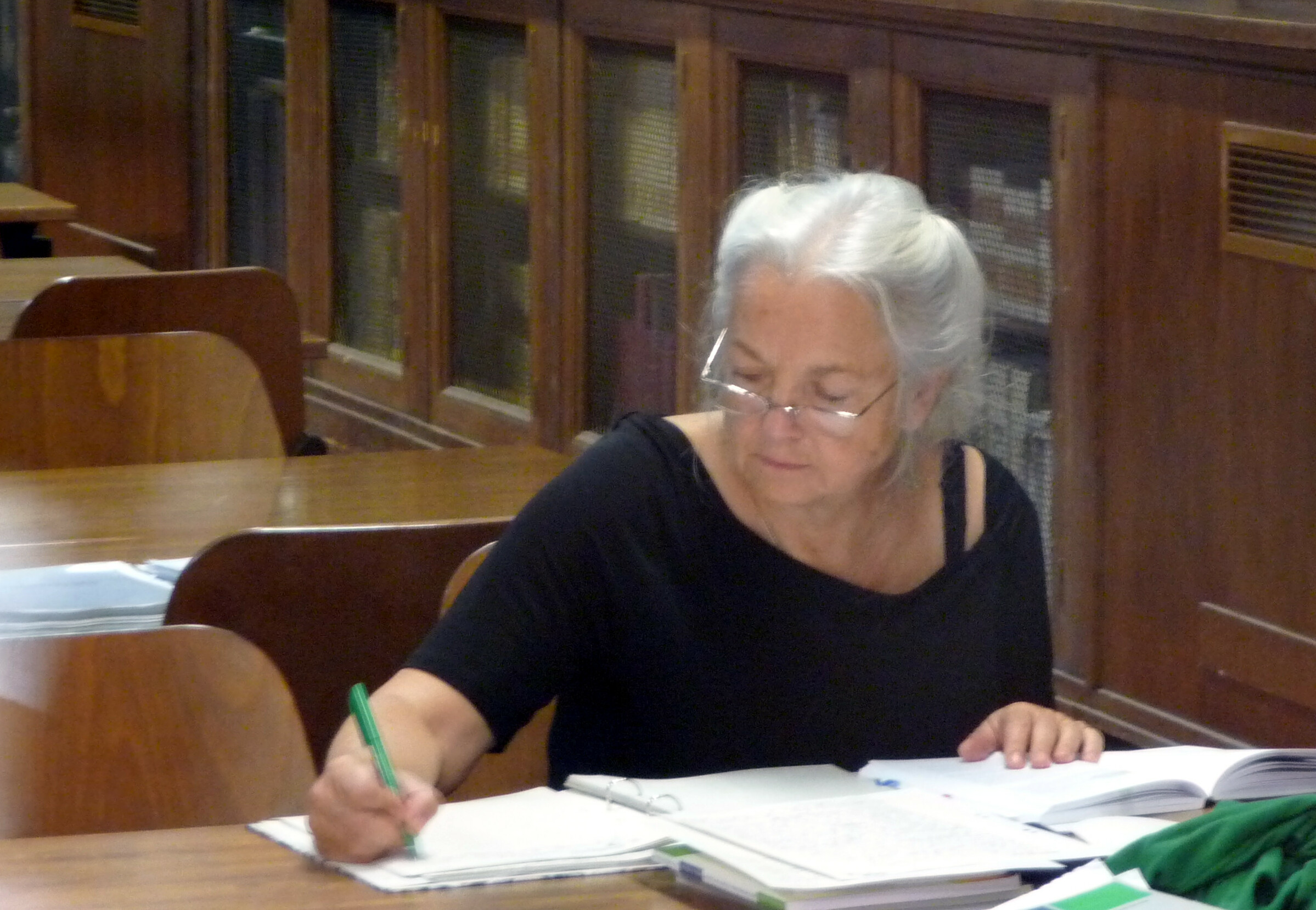 The educational researcher Annedore Prengel.